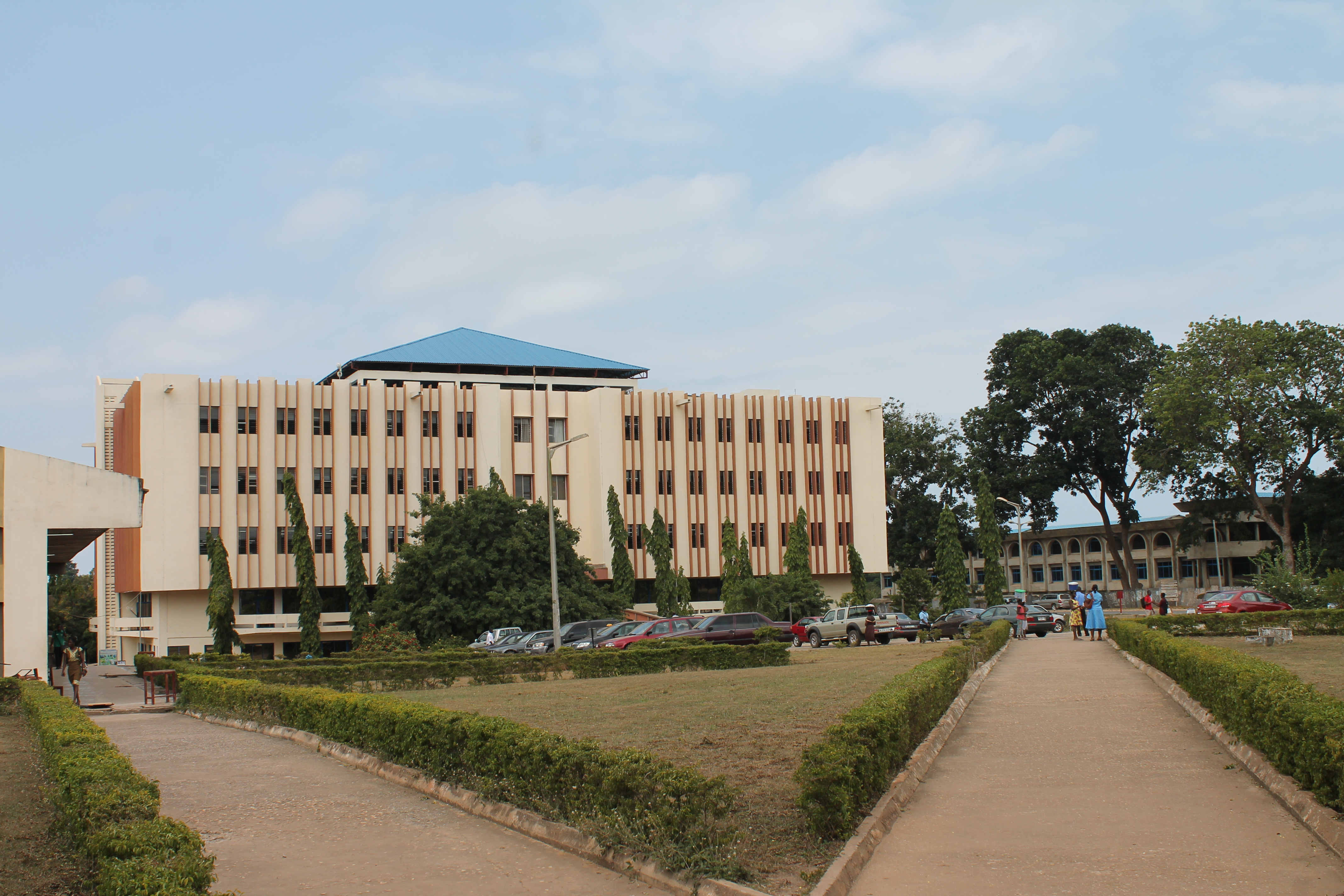 A view of the university library (now called Sam Jonah Library)